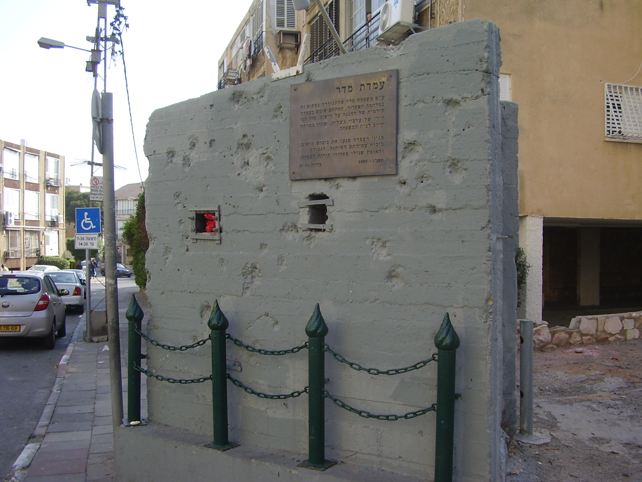 madar post in bat yam